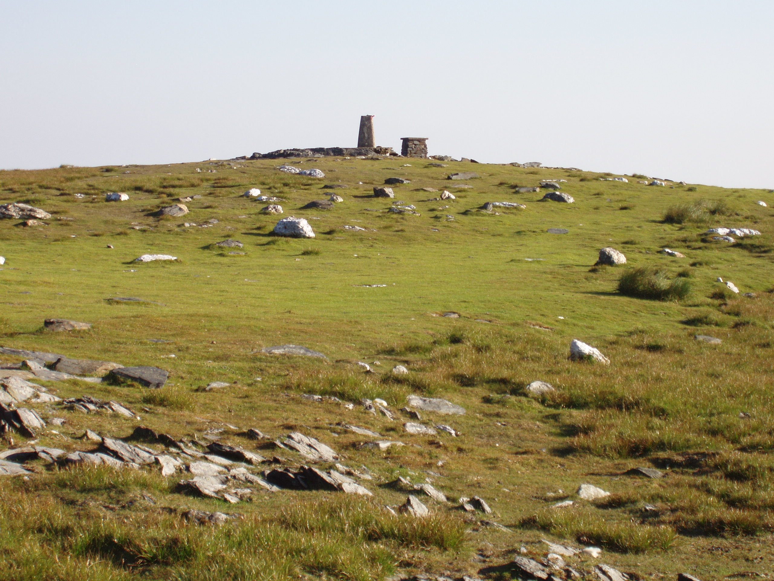 Top of Snaefell Mountain, Isle of Man's highest point. Seen are the geodesic marker indicating the true summit and the nearby cairn with the informational plaque attached to it.